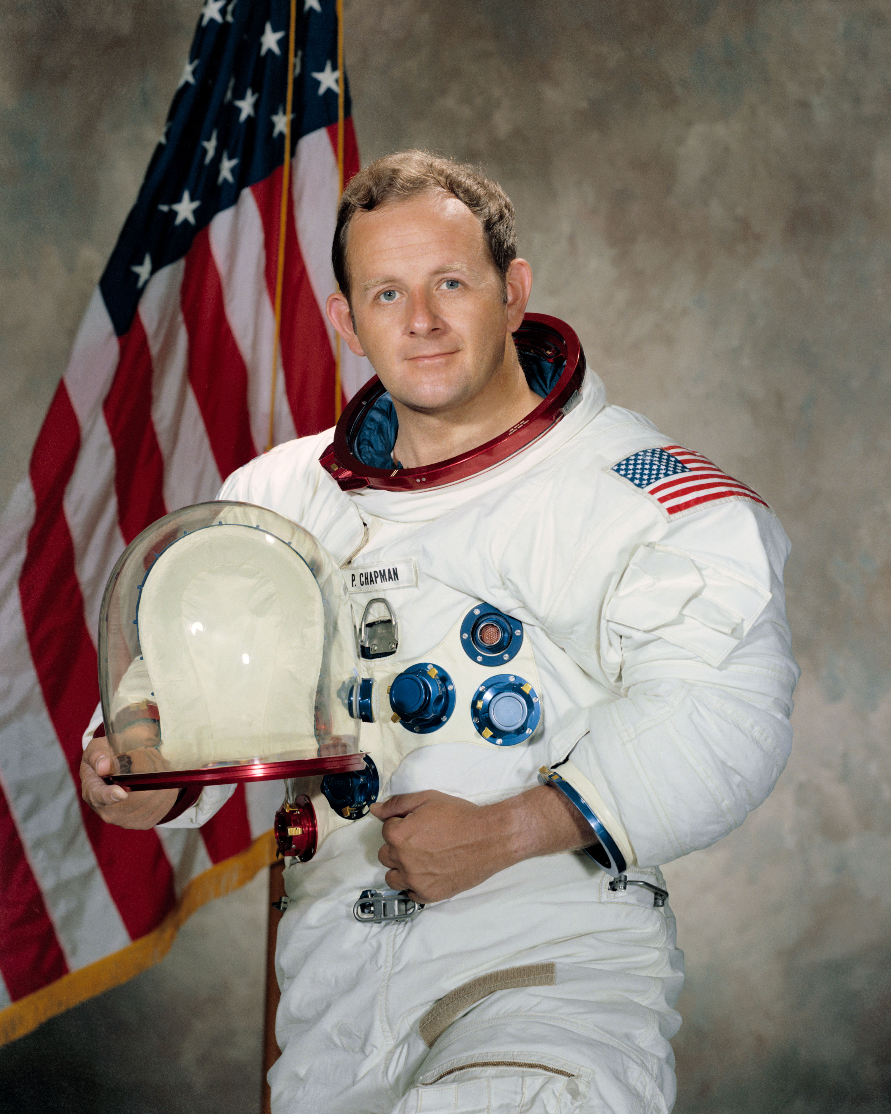 NASA portrait of Philip K. Chapman